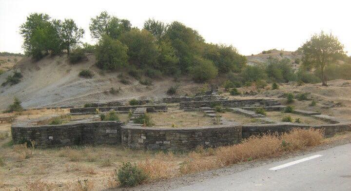 Basilica and Thracian sanctuary near the village of Draganovets, Targovishte Province.